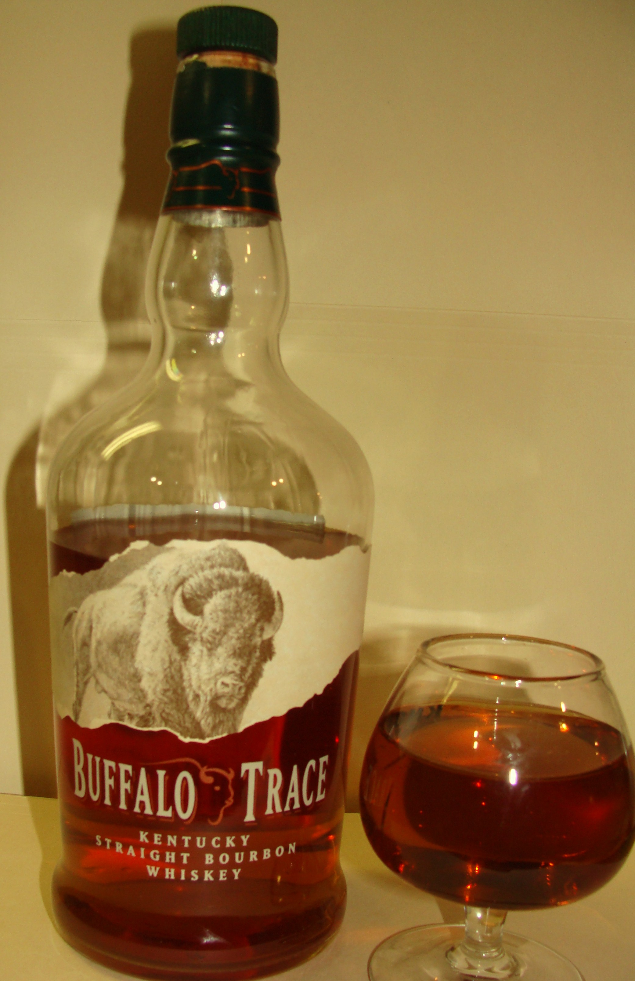 Buffalo Trace